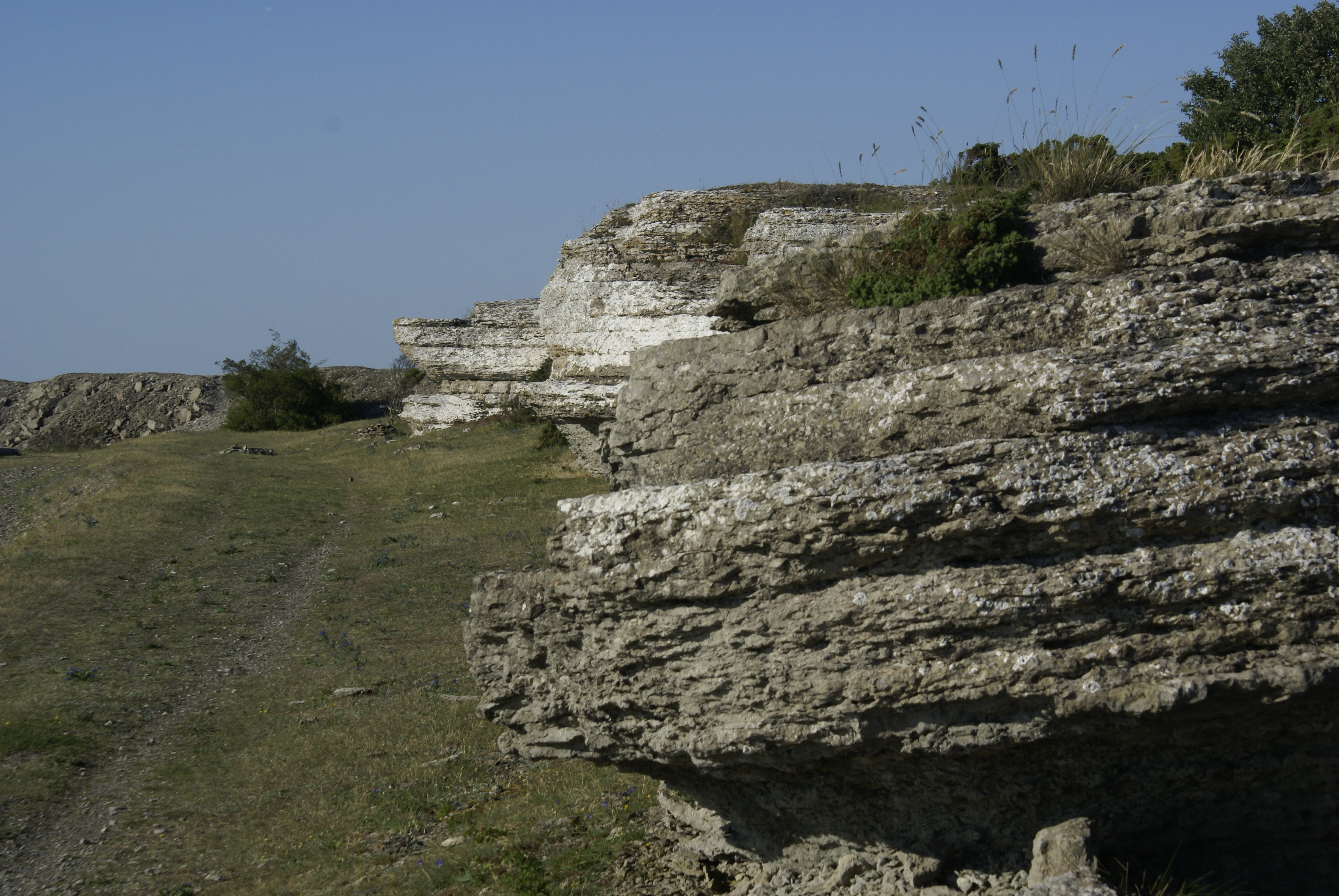 Gillberga "raukar", some sort of stonething formed by sea.